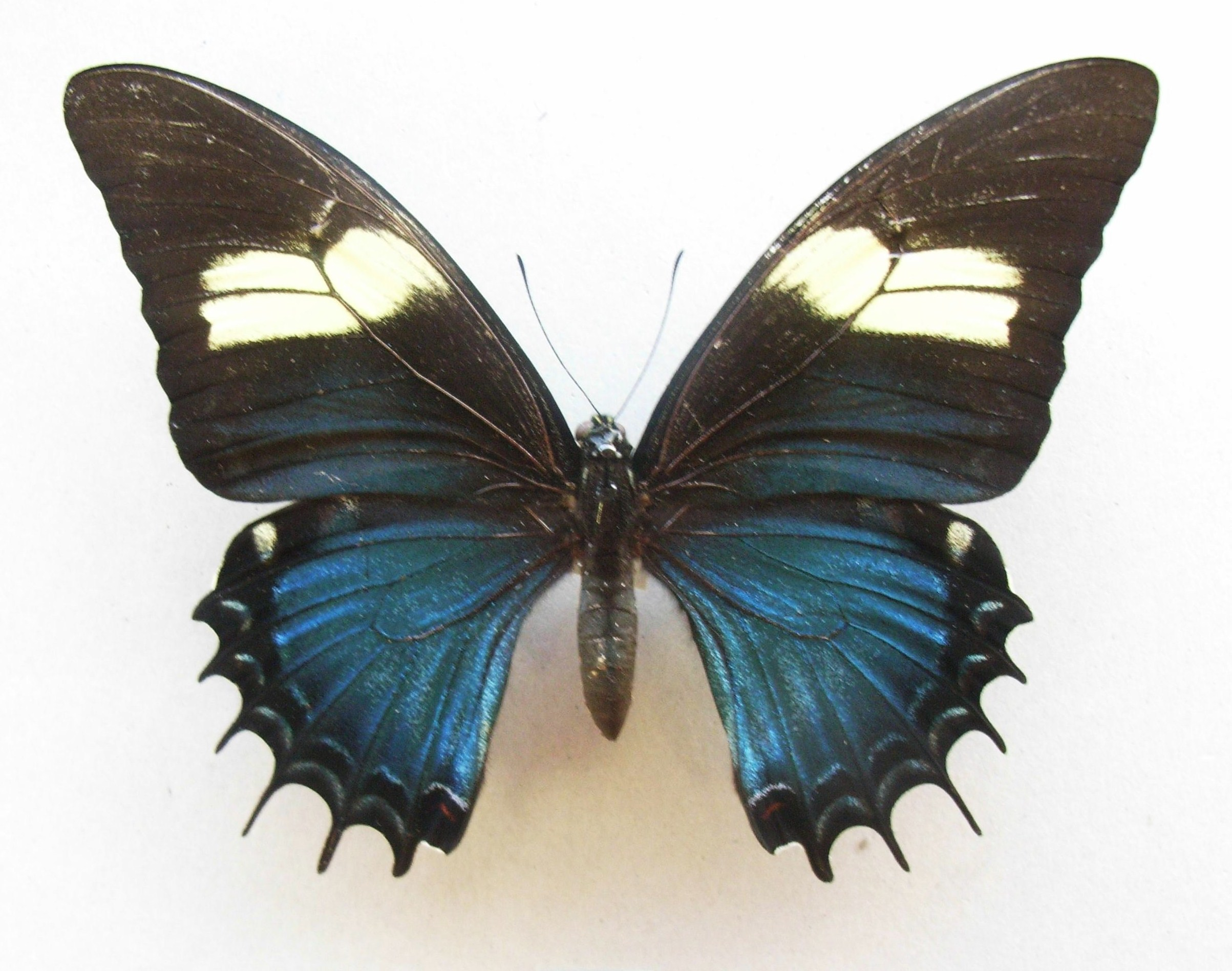 Papilio androgeus female:Papilionidae